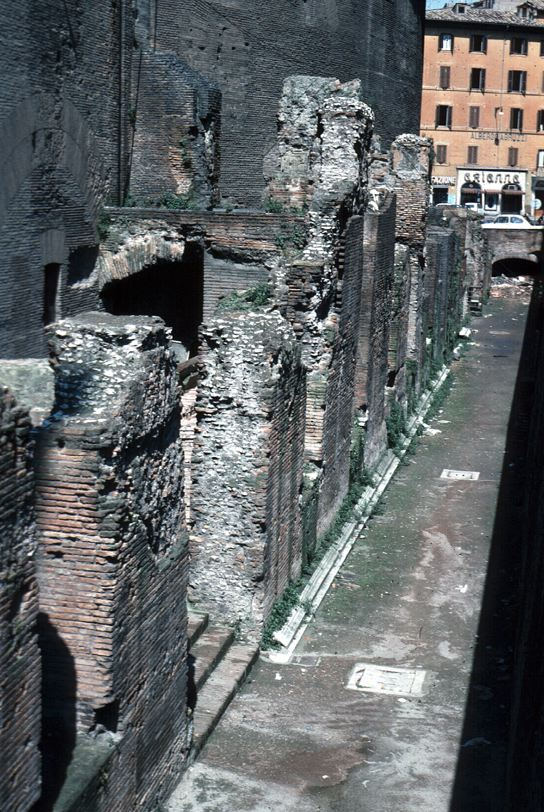 AWIB-ISAW: The Pantheon (III) Remains of the Porticus Argonautarum, beside the Pantheon in Rome. by George W. Houston copyright: George W. Houston (used with permission) photographed place: Roma (Rome) Published by the Institute for the Study of the Ancient World as part of the Ancient World Image Bank (AWIB). Further information